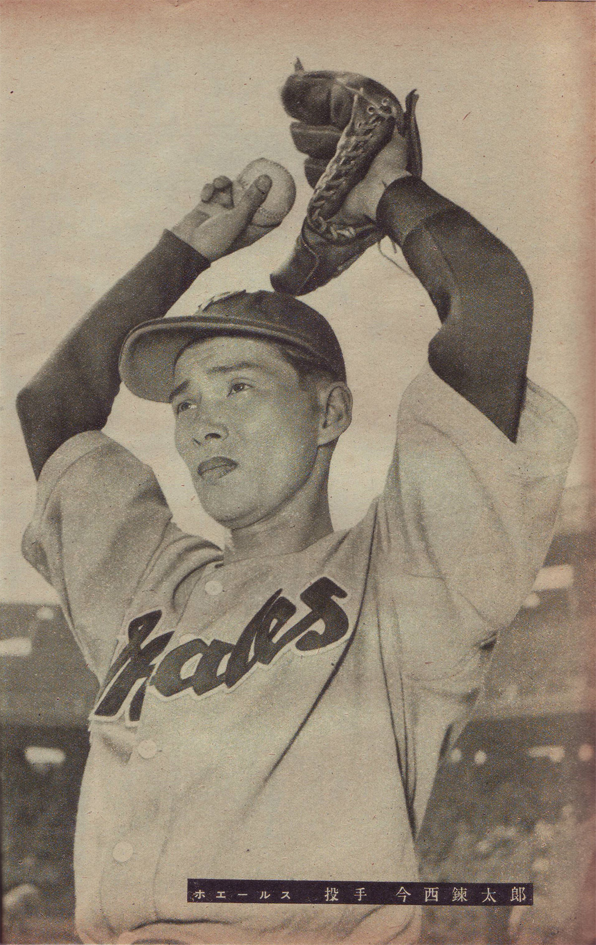 Rentaro Imanishi (Taiyō Whales). taken in 1950.